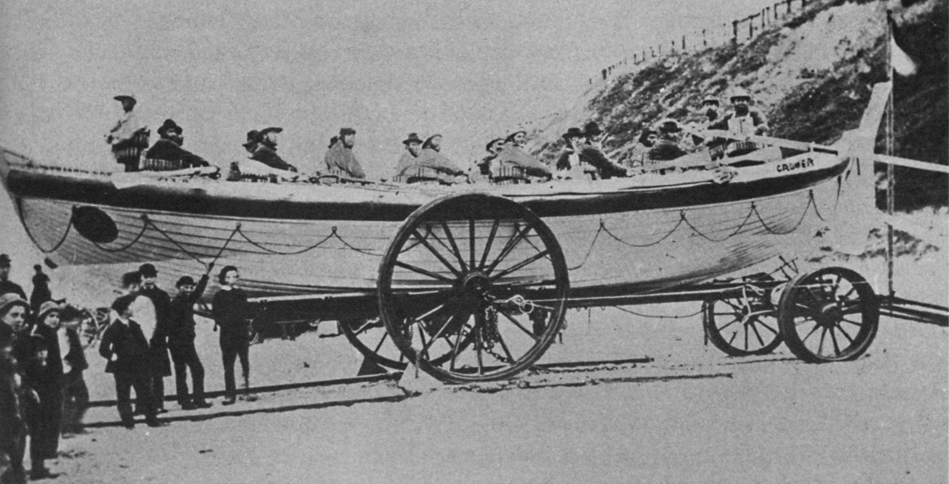 Post card image dated cica 1884 of the Cromer lifeboat Benjamin Bond Cabbell II on her launch carriage below the cliffs of East Beach, Cromer, Norfolk